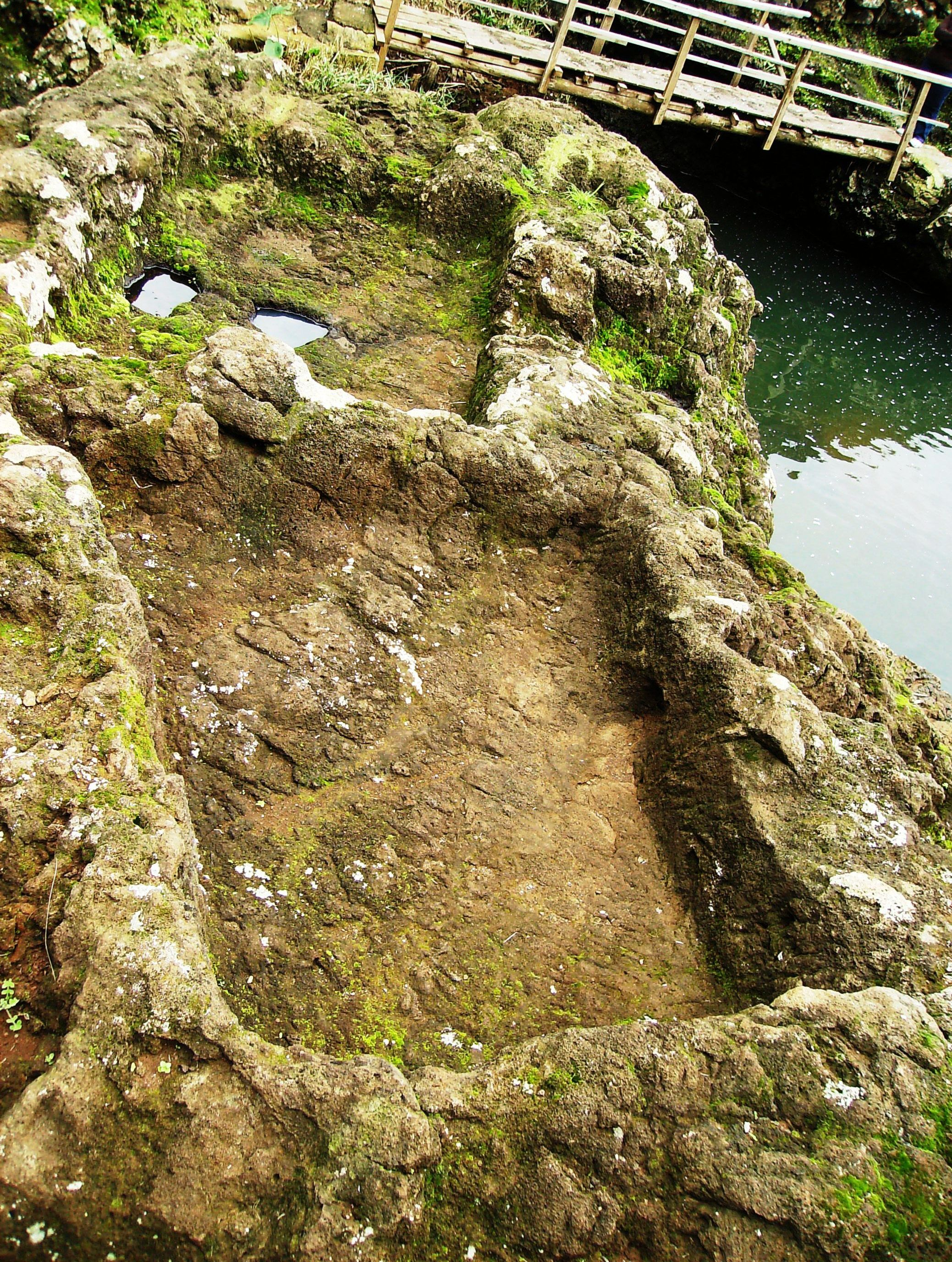 Lagar de Diogo Santos Faleiro: a medieval rock, quarried to produce a rudimentary wine vat, Maia, municipality of Santo Espírito, Azores (Portugal)